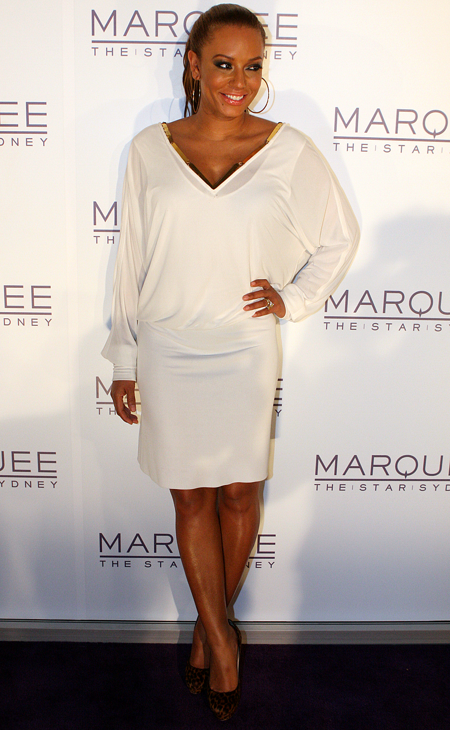 Melanie B at the Paris Hilton: Marquee The Star Sydney 2012.